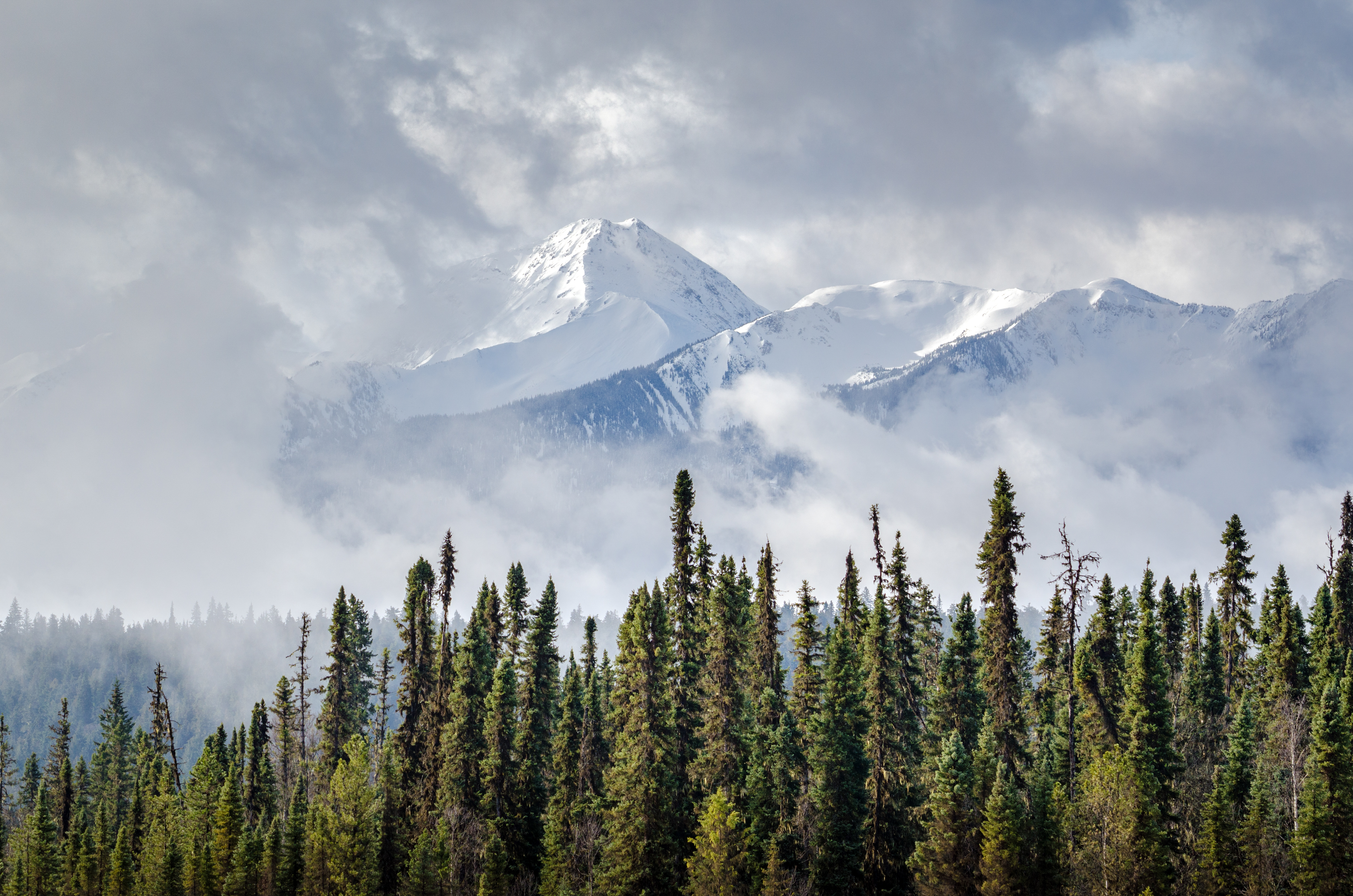 Mountain view in Robson valley, British Columbia, Canada, April 2019